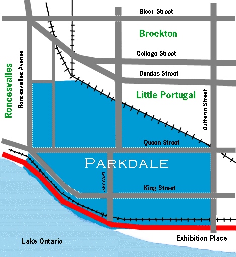 Map illustrating parkdale neighbourhood and location within Toronto